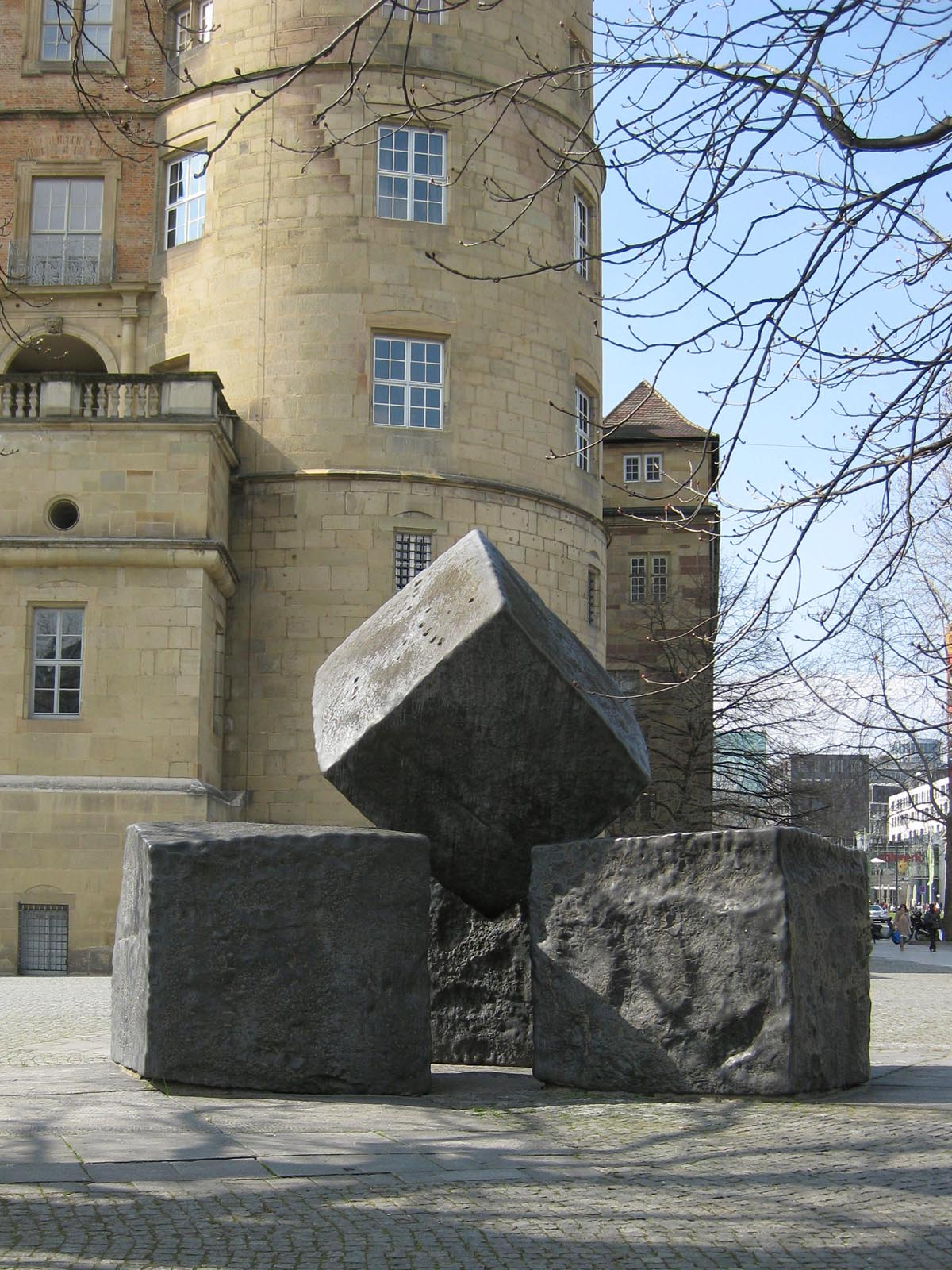 Sculptures in Stuttgart, Elmar Daucher, Mahnmal für die Opfer des Nationalsozialismus, 1970